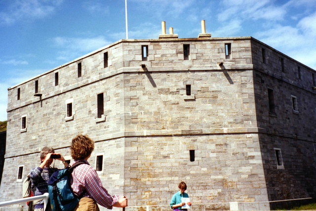 Inspecting the West Blockhouse Fort completed in 1857, had a single battery of six heavy guns, continued in use until after Second World War. Now holiday accommodation, owned by Landmark Trust